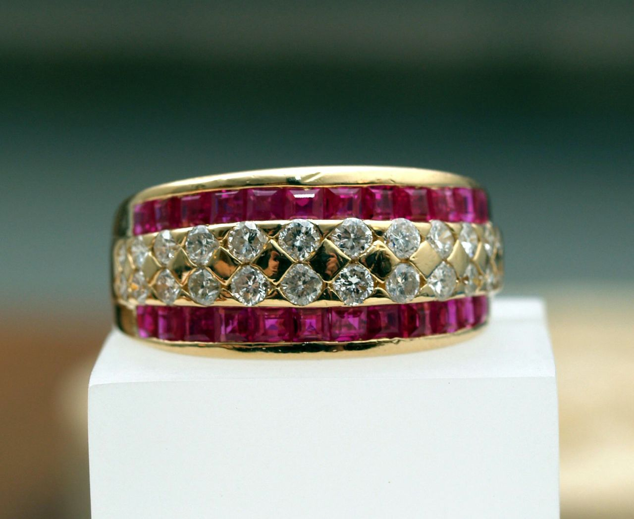 ruby and diamond band